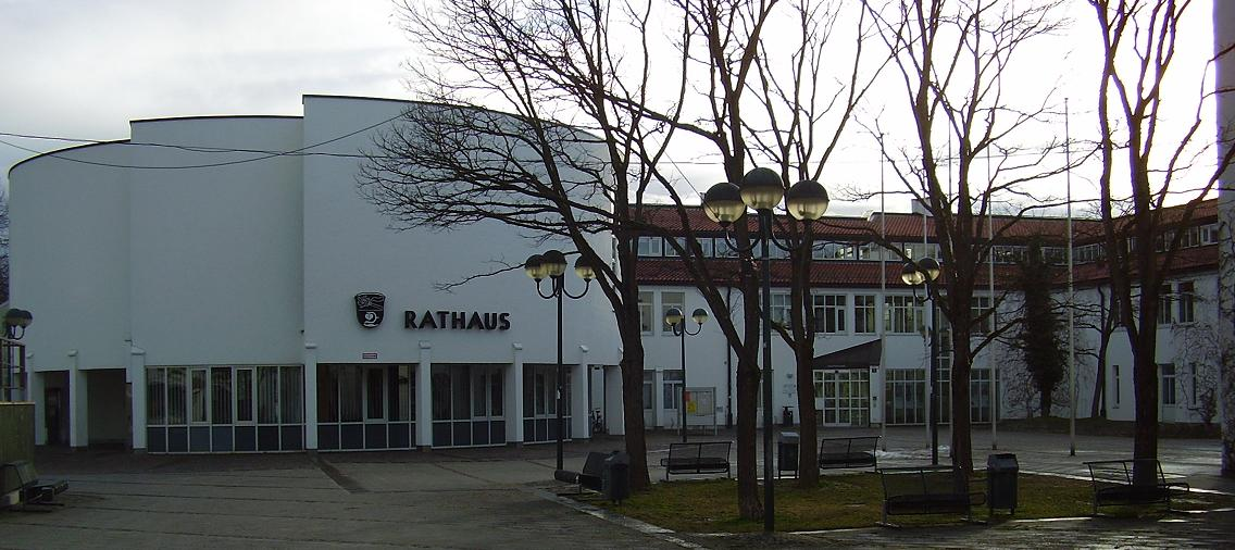 Rathaus (town hall) of Unterhaching near Munich (Germany)